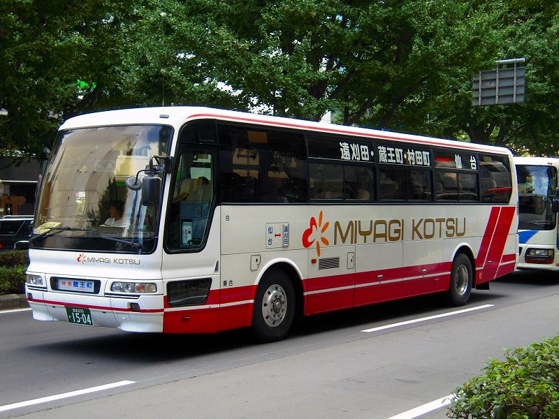 Miyako bus Mitsubishi Fuso Aero BusHighwaybus Sendai-Murata,Zao town(Miyagi)